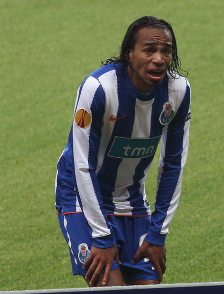 Álvaro Daniel Pereira